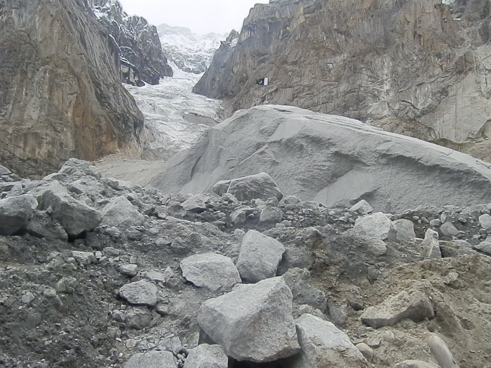 Pakistan Flag atop the debris. The Pakistani Nation vowed to dig out every body from under the avalanche